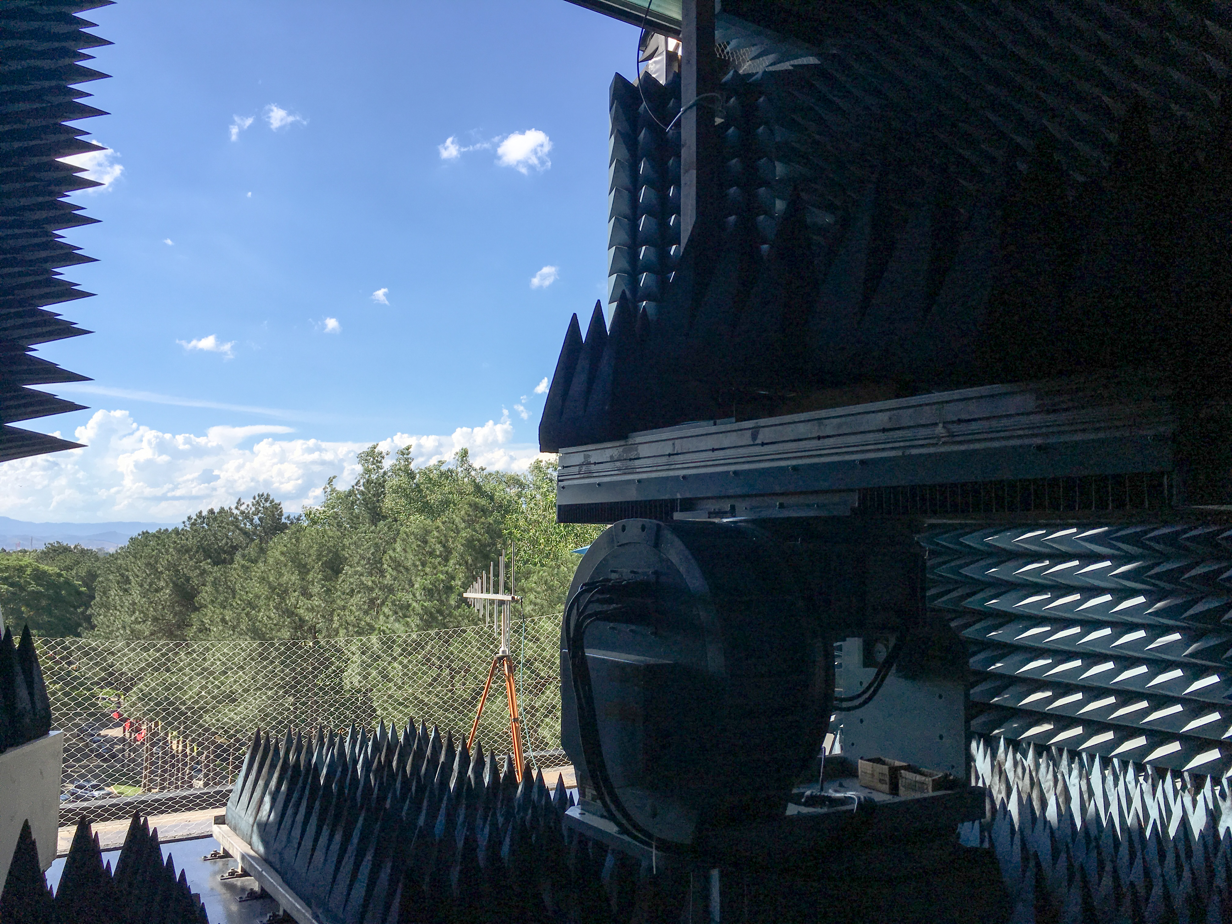 Facilities at INPE, São José dos Campos, Brazil.